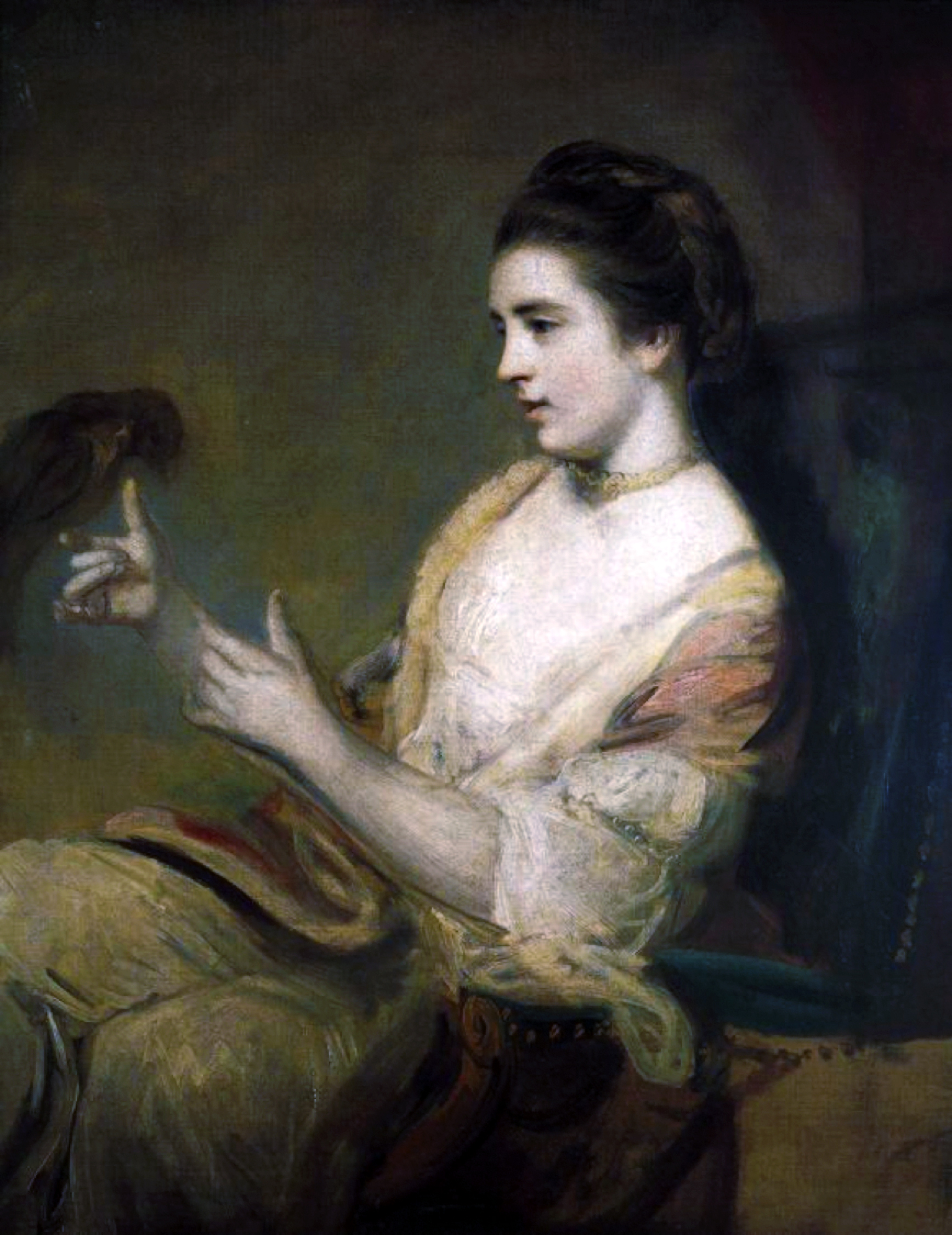 The model, Kitty Fisher, wears a white silk dress, open at the throat. She sits in a high-backed blue velvet chair, the back of which hangs a small red curtain. Her hands are half-raised and open in front of her. Resting on the index finger of her right hand is a parrot, at which she is looking. The background of the painting is light grey.